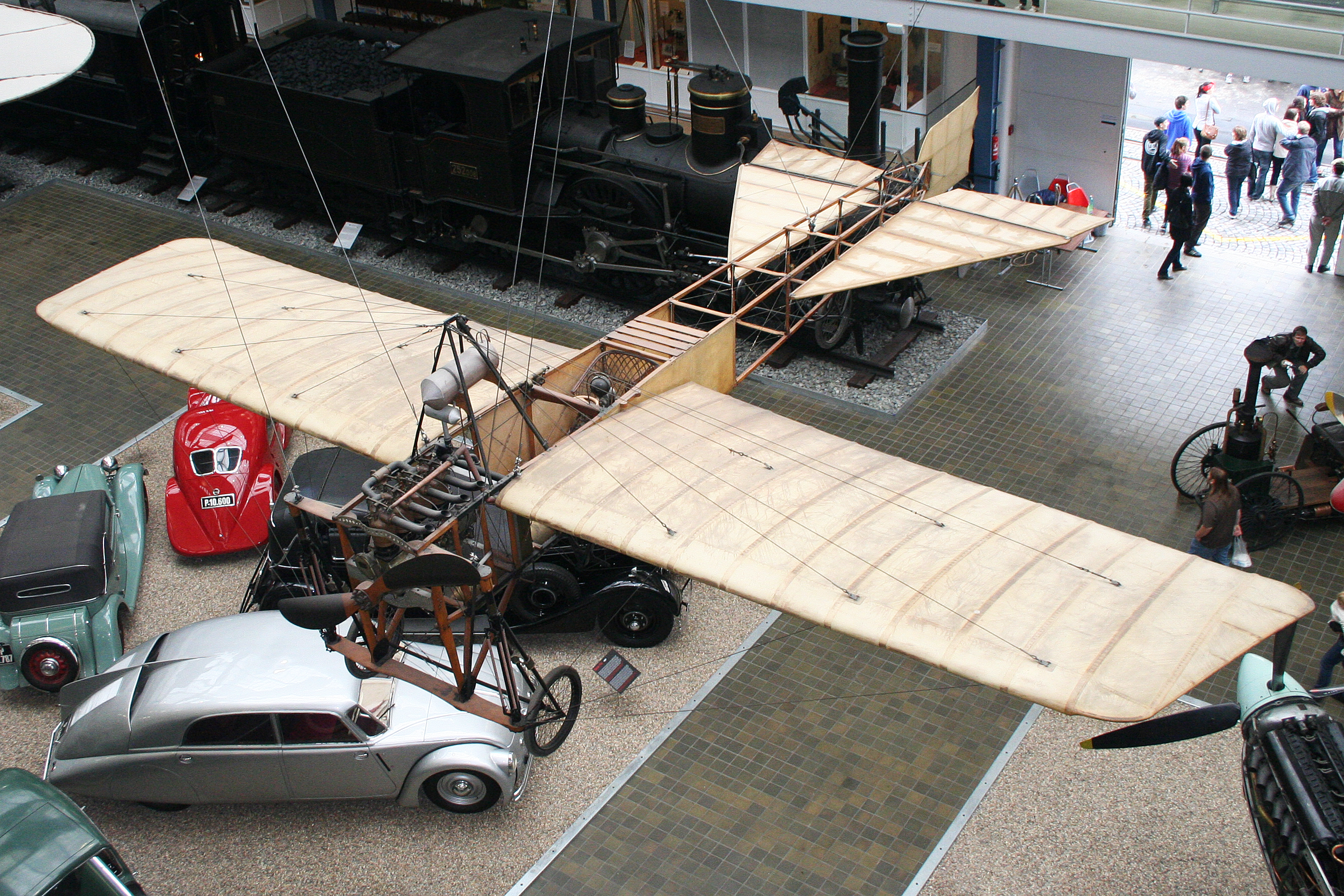 Built in 1911 by Jan Kaspar, this aeroplane was used by him for a series of long distance flights. The most famous was on 13th May 1911 when he flew 121km from Pardubice to Velka Chuchle. The flight took 92 minutes. He later gifted the aeroplane to the National Technical Museum, where it remains today. Sadly, Kaspar later fell into poverty and, suffering from mental illness, he commited suicide in 1927. National Technical Museum. Prague, Czech Republic. 07-10-2012